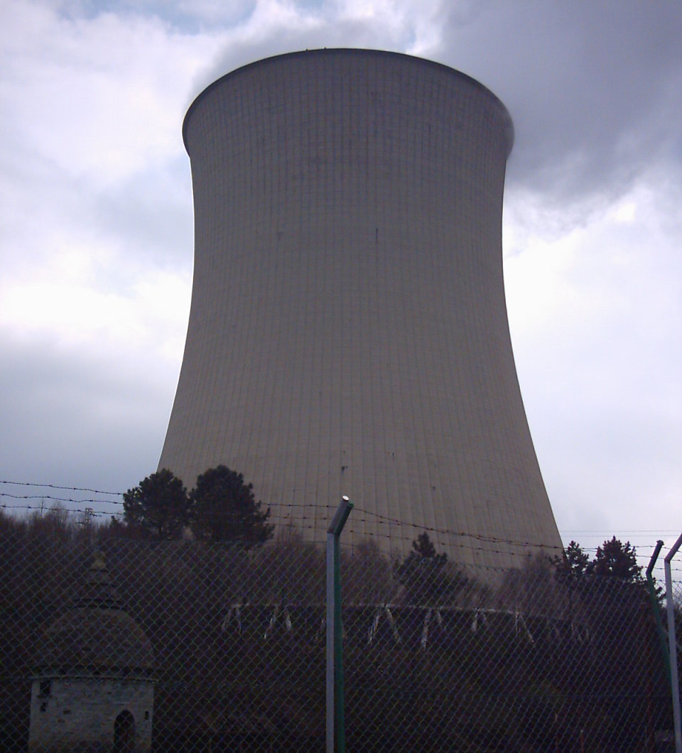 Refrigeration tower of Endesa's coal power plant in As Pontes de García Rodríguez